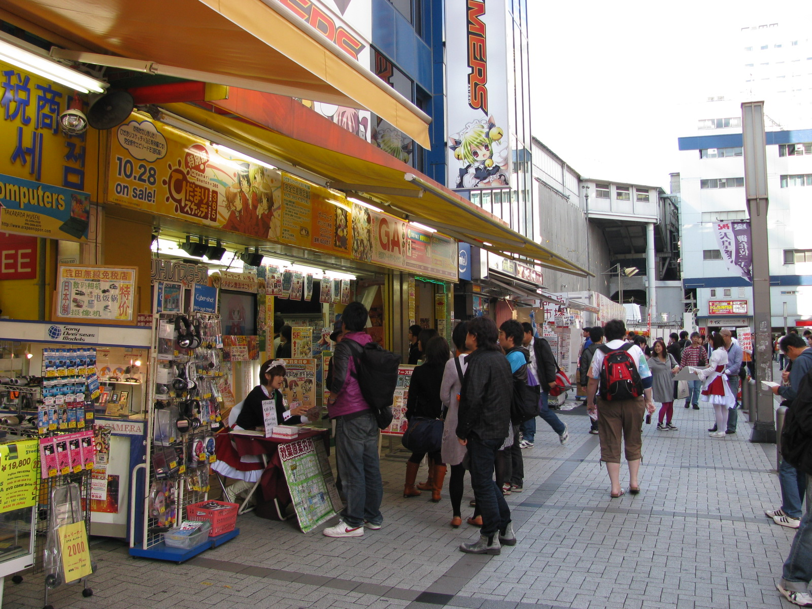 The Akihabara is a town of many major appliance, electronics parts, computer games, Anime goods shops and cosplay restaurants, located in Chiyoda, Tokyo, Japan.